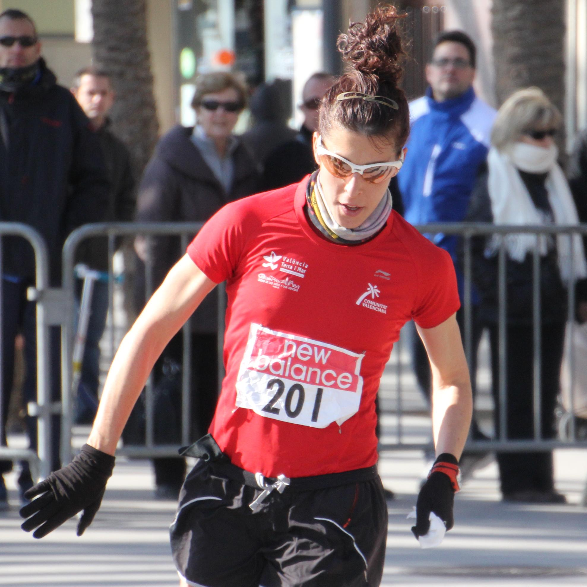 Beatriz Pascual, spanish racewalker. He participated in the 2008 Beijing Olympics. Photography taken on 80 Individual Racewalking Championship of Catalonia, on February 12, 2012, in Badalona.